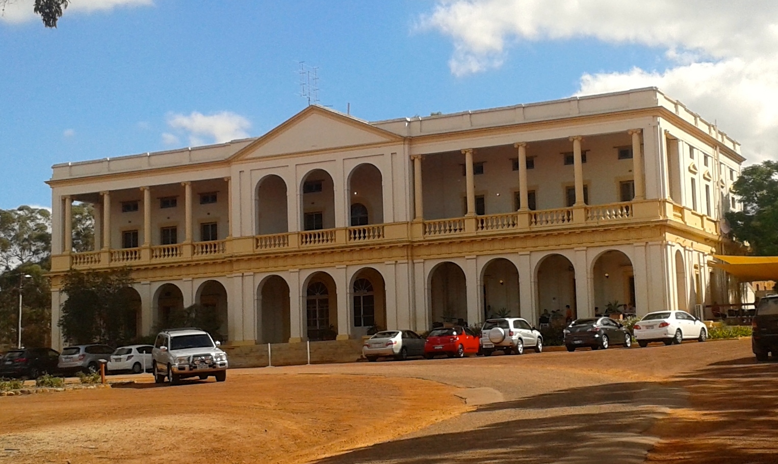 New Norcia Hotel, pictured last year